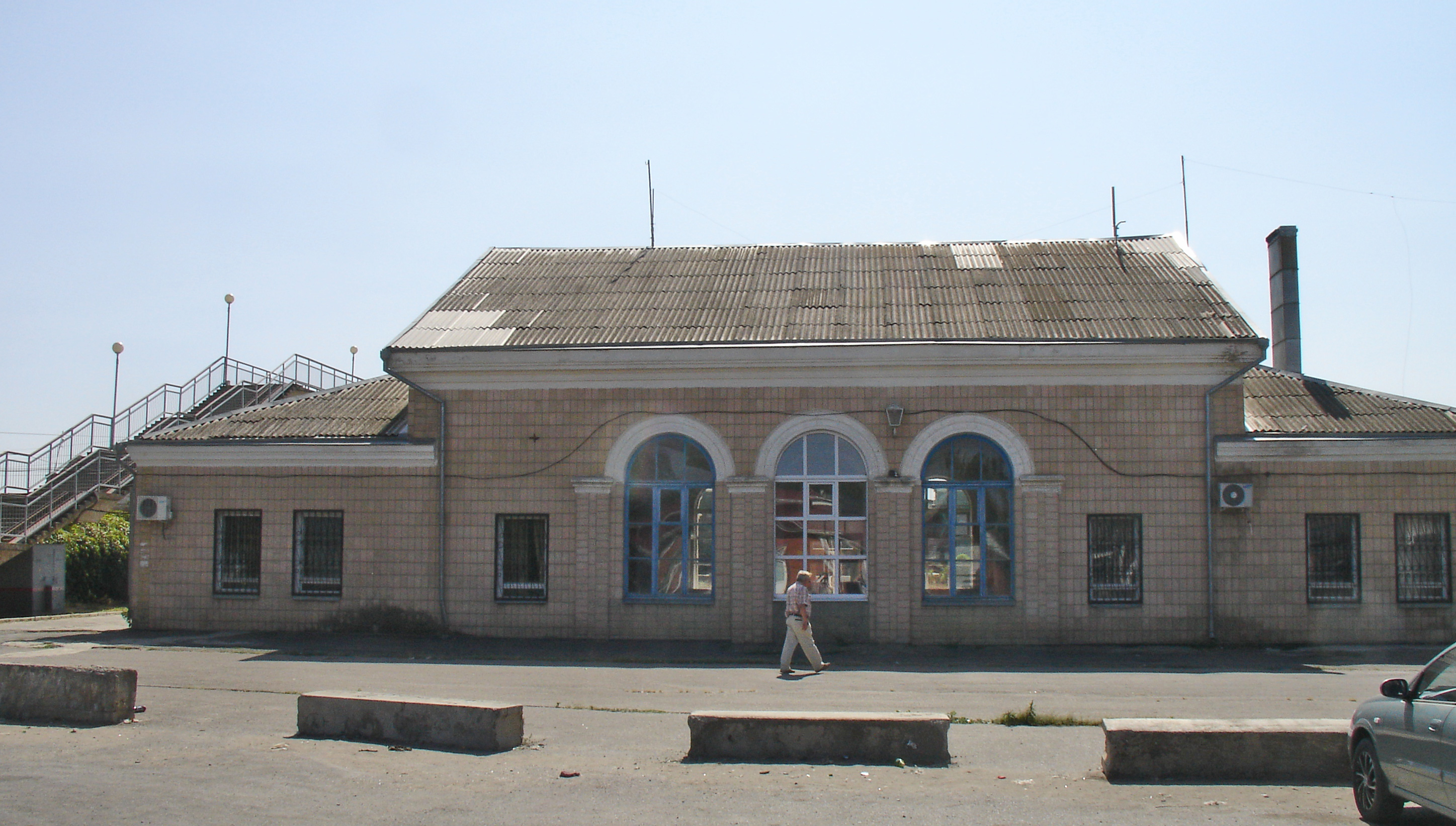 Zernograd Railway Station (back view). Zernograd, Rostovskaya oblast, Russia.